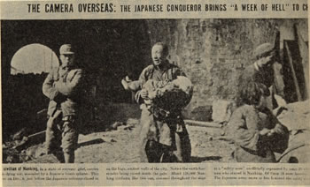 Photo from Life magazine on January 10, 1938, explained as a Chinese man carrying his son who had been wounded in Japanese bombing, and taken on December 6, 1937. So, this was not a photo after December 13, 1937, the day of the fall of Nanking by the Japanese military. The soldier wears a cap that looks Chinese. However, the movie Battle of China, and others, used this photo as a dipiction of the Nanking Massacre.